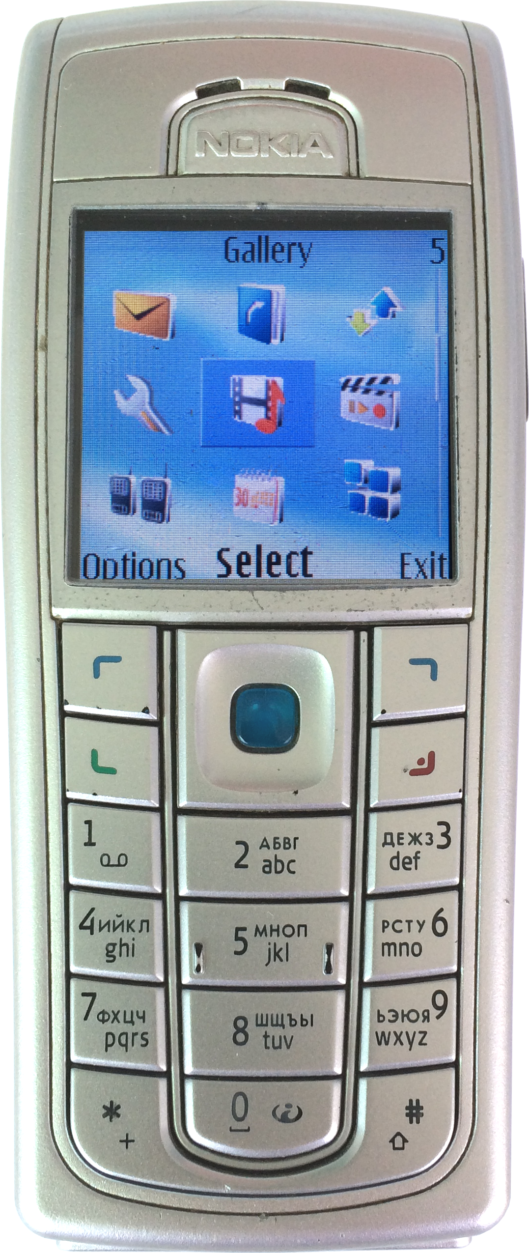 European Nokia 6230i. Image doctored to make screen visible.